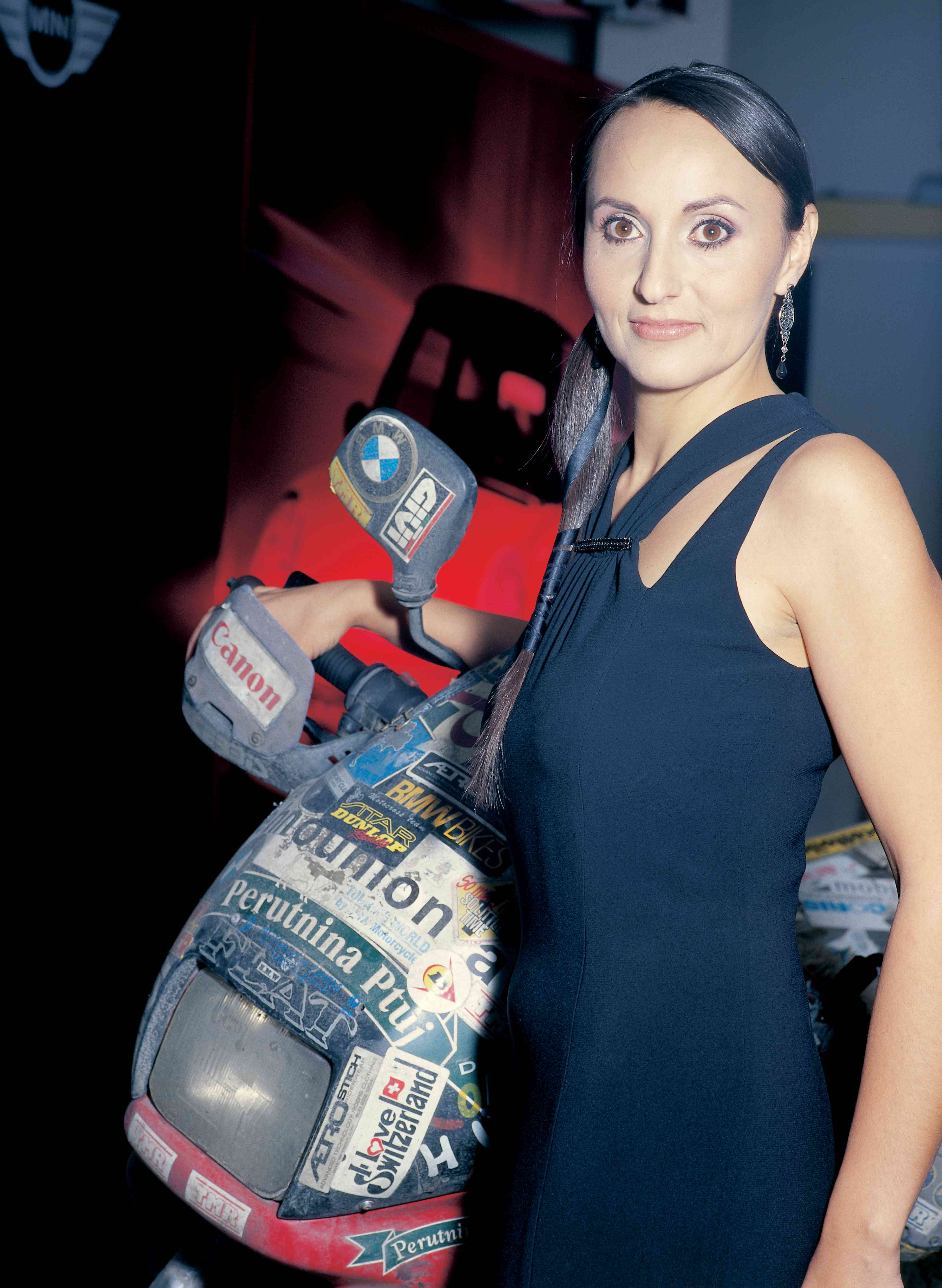 Benka with her bike.